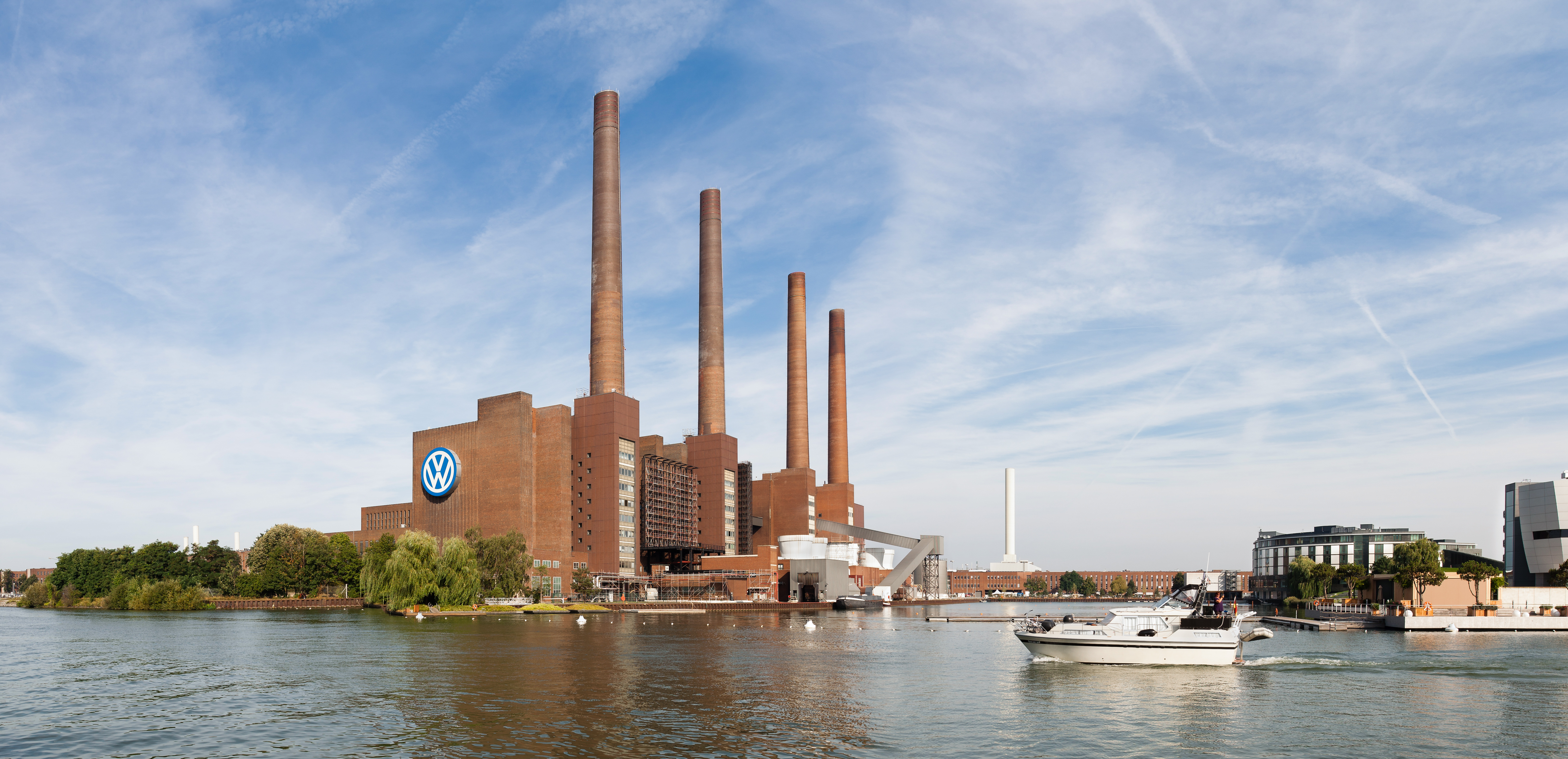 Old heating plant @ Volkswagen Plant, Wolfsburg, Germany